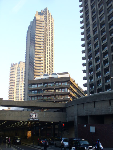 Beech Street, Barbican Roofed over dual carriageway with what were the country's tallest residential flats, when built in the 1970s.